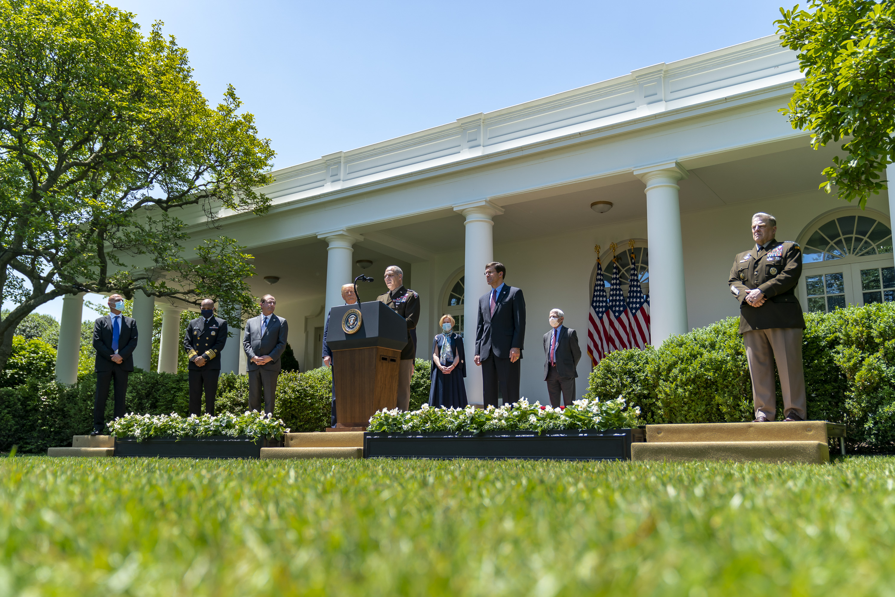 President Donald J. Trump listens as General Gustave Perna, Commanding General of the U.S. Army Material Command, delivers remarks during an update on vaccine development Thursday, May 15, 2020, in the Rose Garden of the White House. (Official White House Phot by Shealah Craighead)